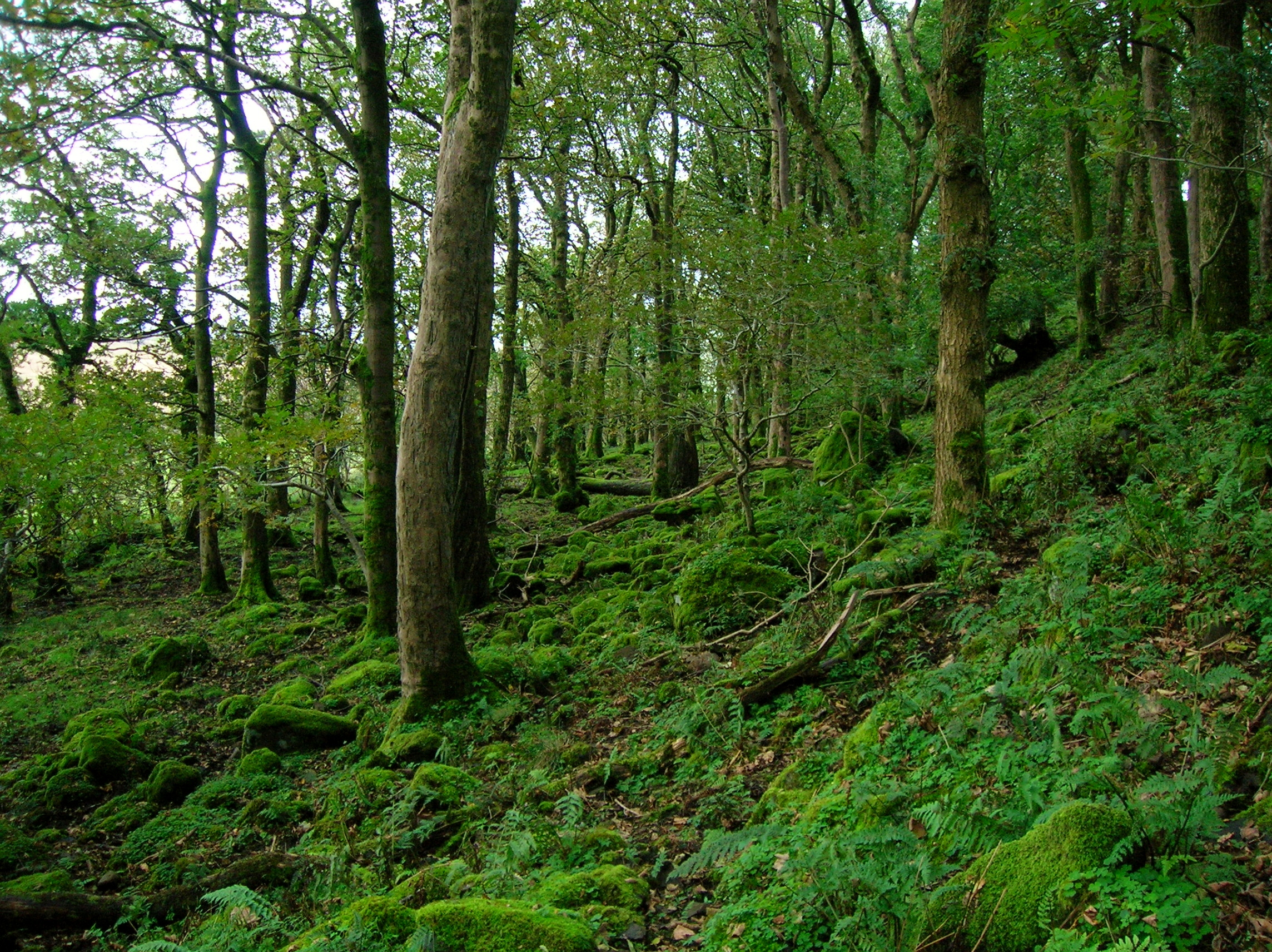 Rabbie's Well Woods along the whinstone ridge near Swindridgemuir, North Ayrshire, Scotland.